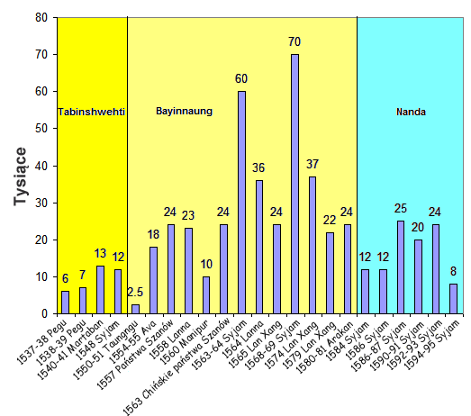 RBA mobilization, Toungoo Empire (Polish version)